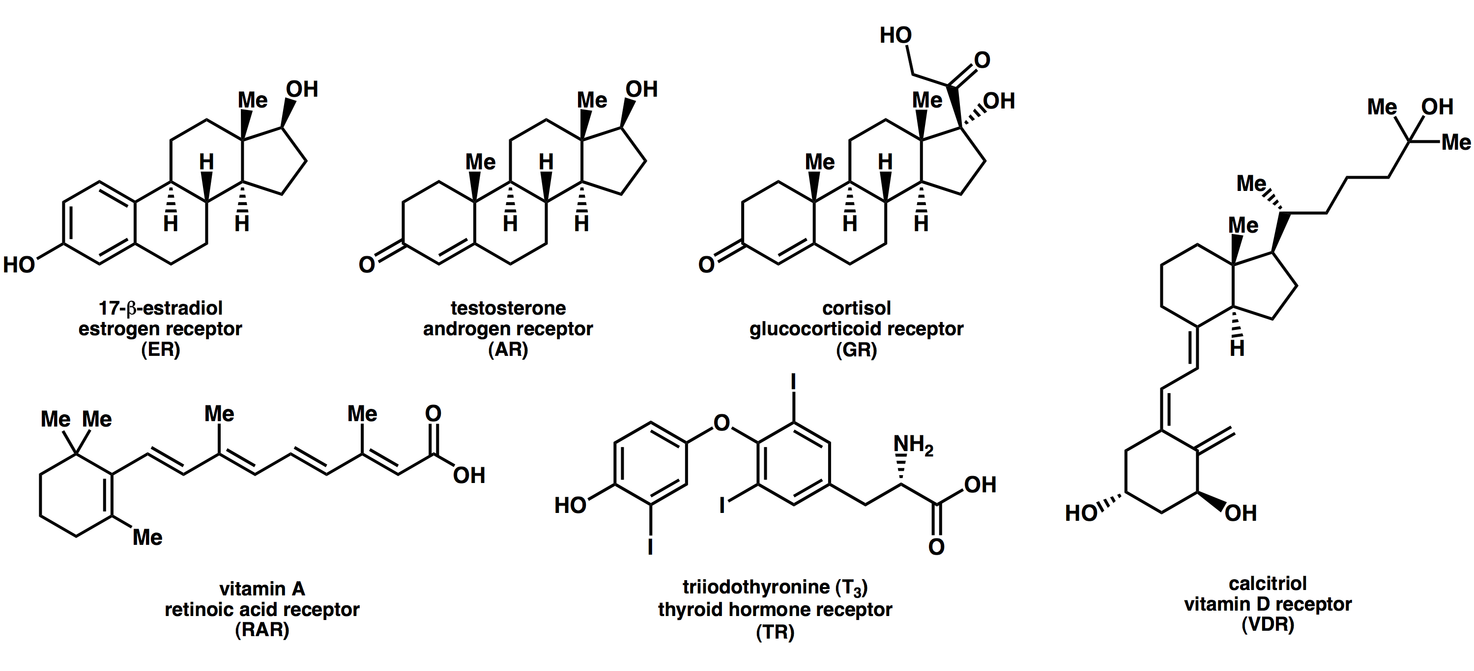 Created by user:Boghog2 using Cambridgesoft Chemdraw. Structures of selected endogenous nuclear receptor ligands and the name of the receptor that each binds to